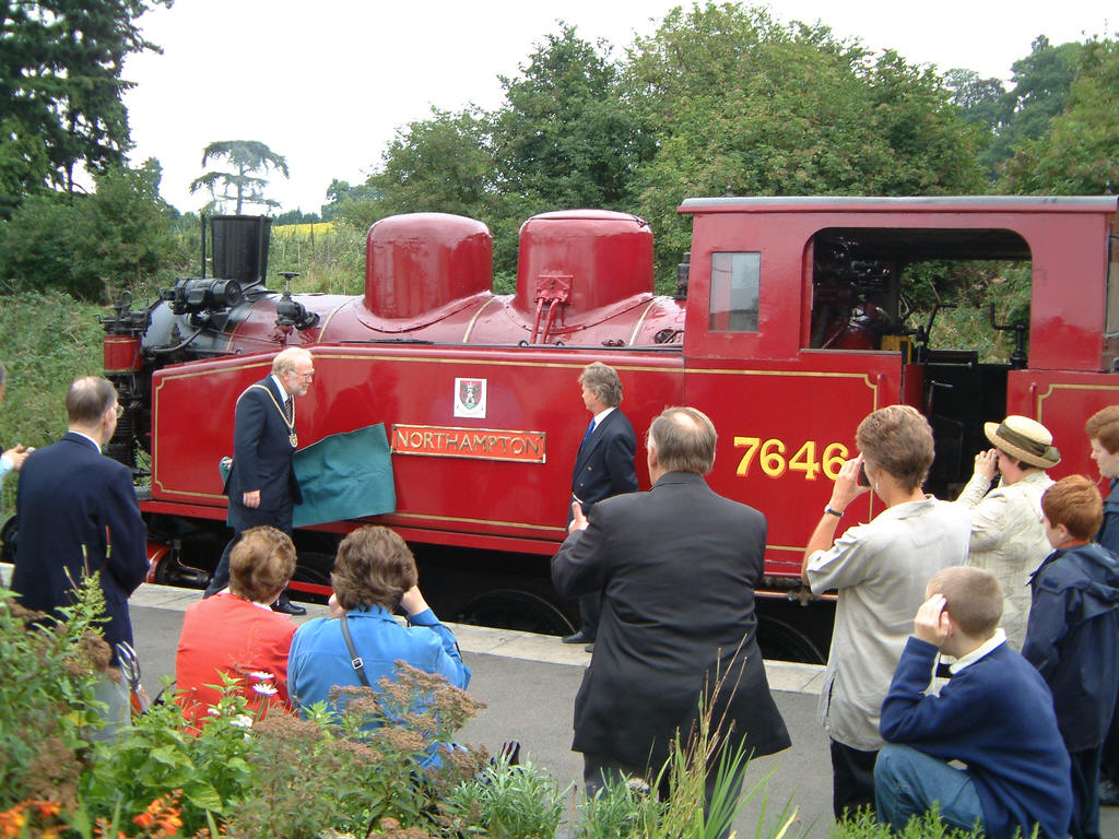 Naming of locomotive "Northampton". Original photograph: taken 10th August 2002 by Simon Jenkins. Uploaded with photographer's permission by Amos Wolfe This photograph was taken at Northampton & Lamport Railway and shows the naming ceremony being performed by the Mayor of Northampton, Councillor Mike Boss. The steam Locomotive No. 7646 was imported from Poland before being restored to working order. External link: For more information please see: Northampton & Lamport Railway homepage